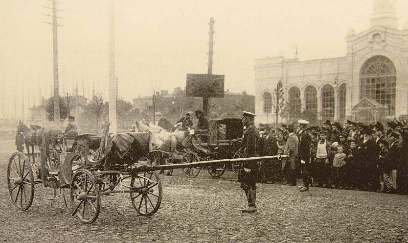 Peterburg VII-1904 Varschavsky voksal.